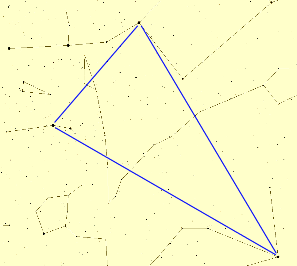 Autumn triangle